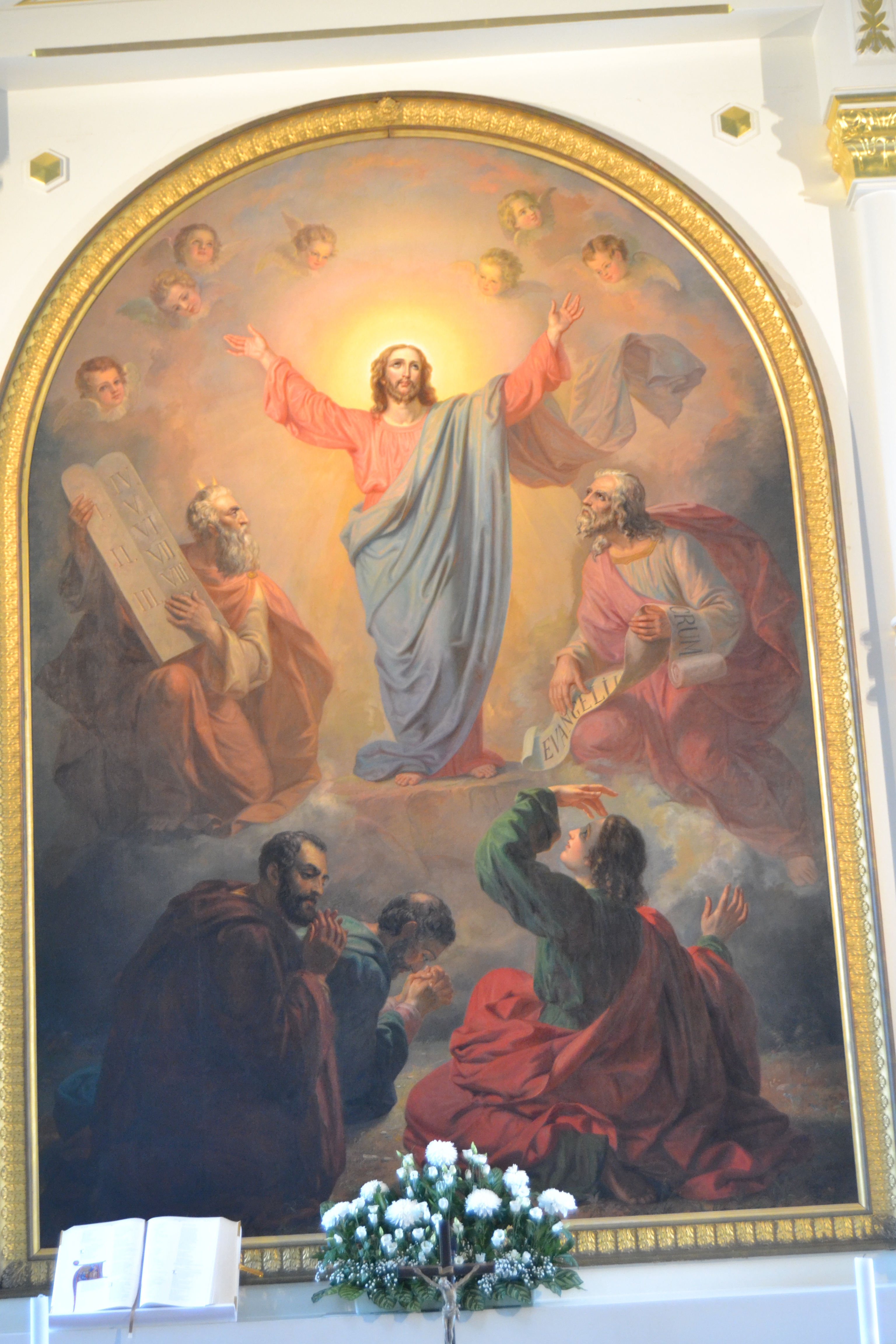 Altar piece of Laukaa Church, Finland